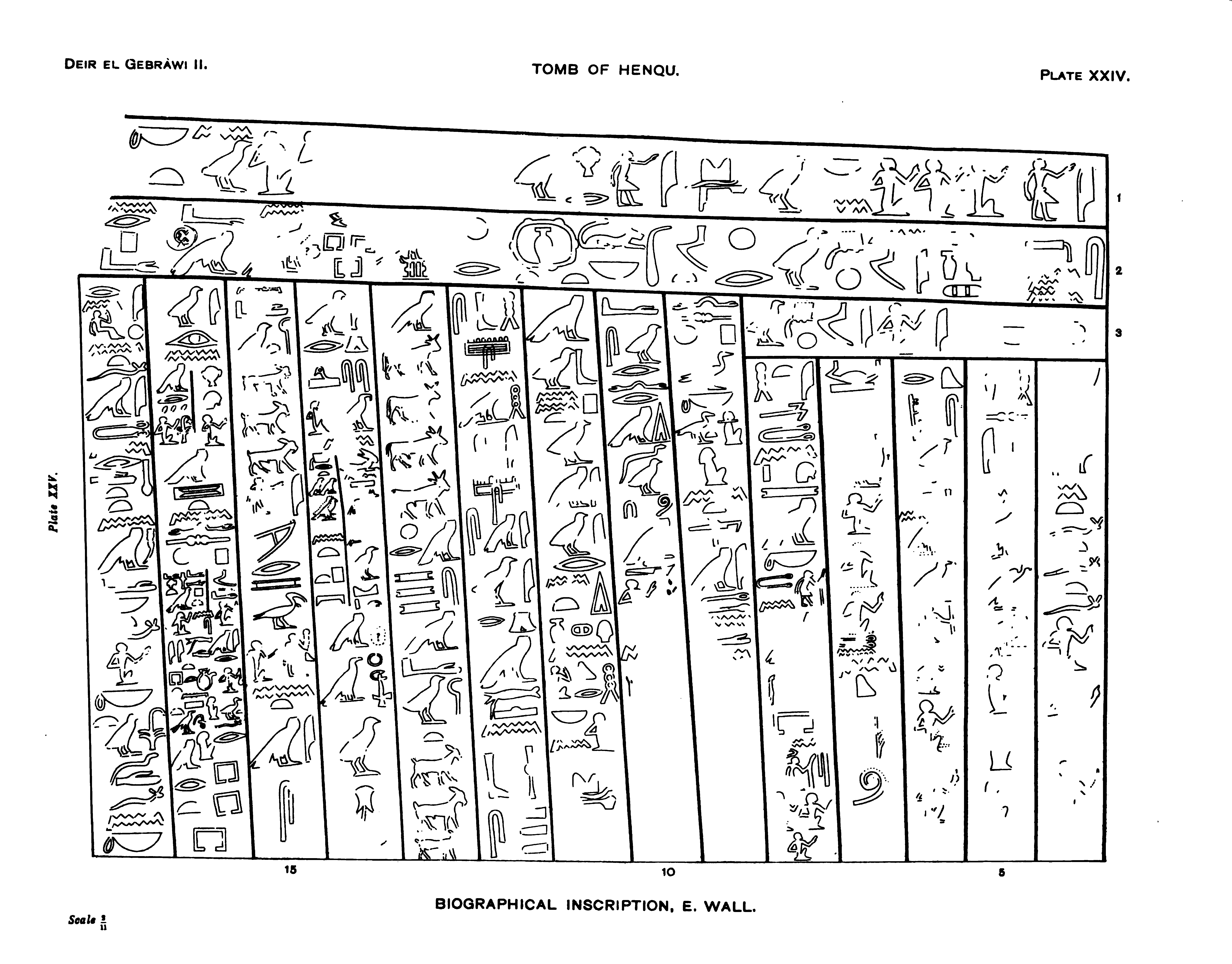 Deir el-Gebrawi rock tomb N67 (Henqu II)